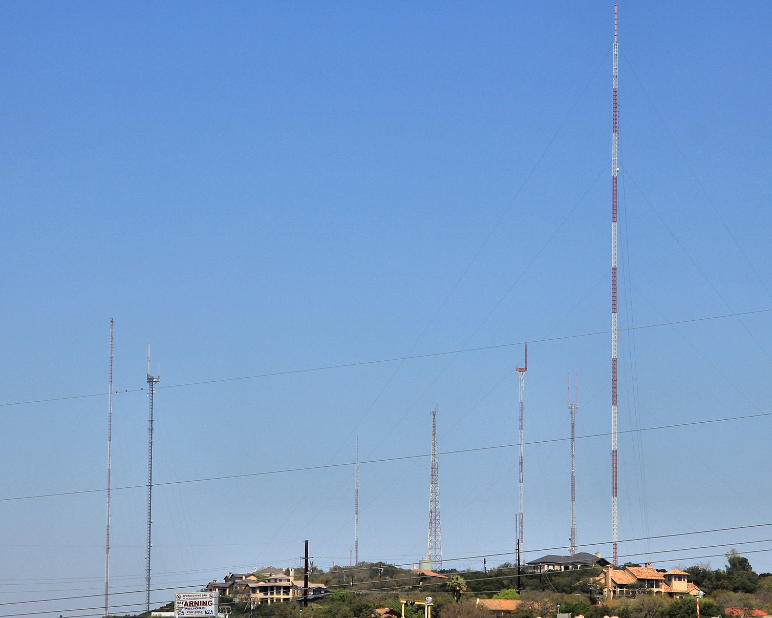 The West Austin Antenna Farm in Austin, Texas, United States as seen from LCRA's Redbud Center.